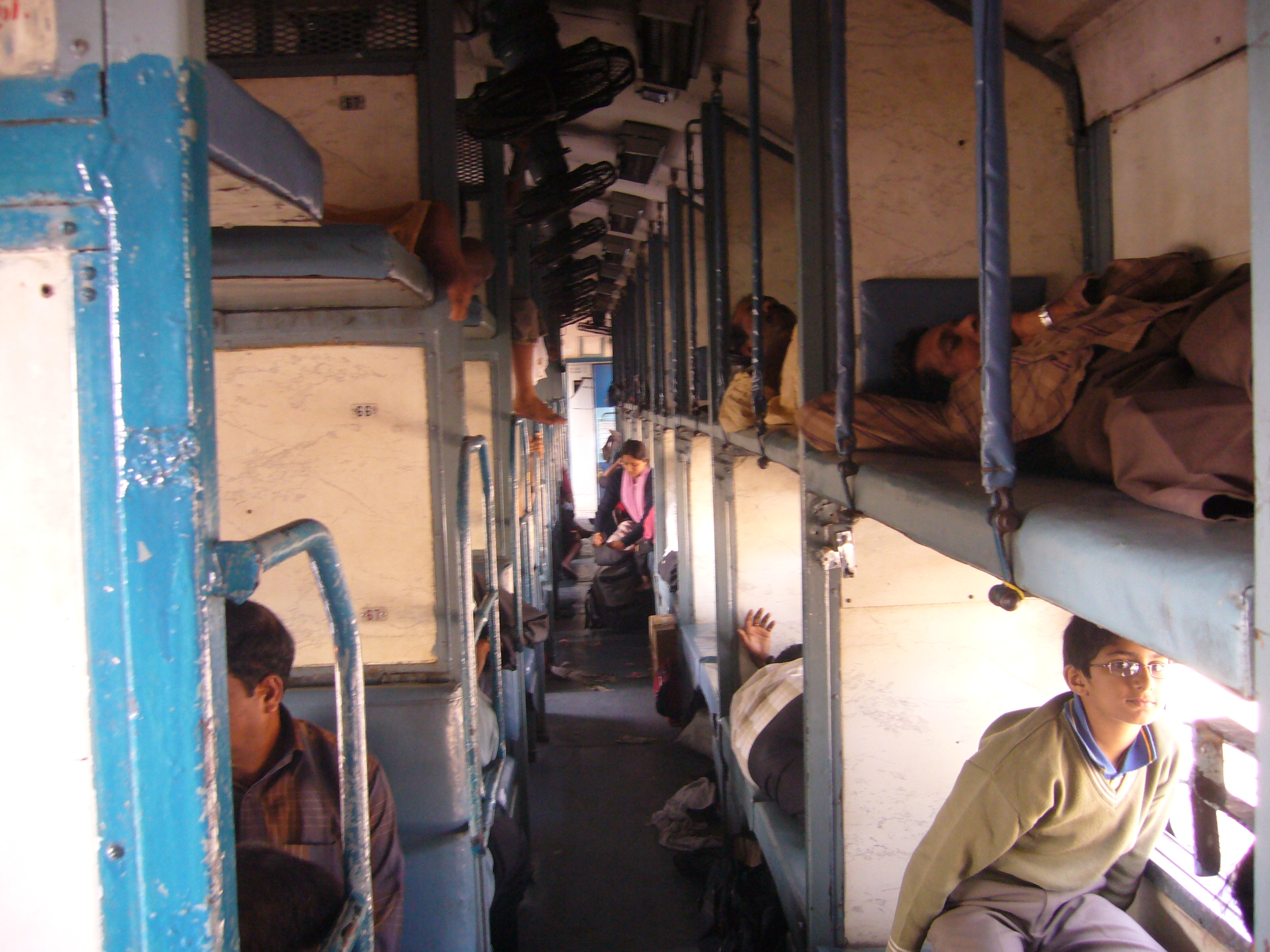 A typical Indian sleeper coach.